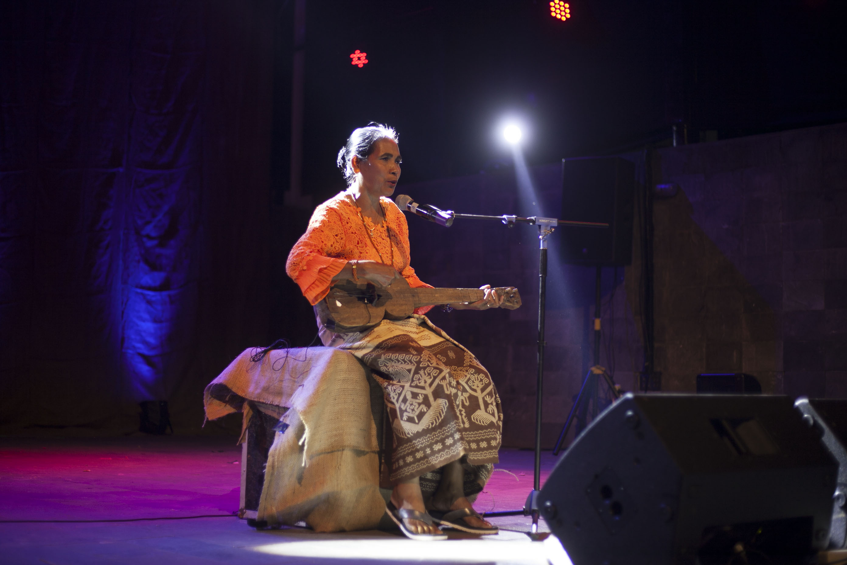 Kahi Ata Ratu, the jungga maestro from East Sumba, Indonesia is performing her songs live at CME-Fest Yogyakarta. She is known as the only remaining woman jungga player (two strings ukulele-like instrument) from Sumba. She has written and performed hundreds of songs, mostly an expression of her personal thoughts and feelings at the moment.